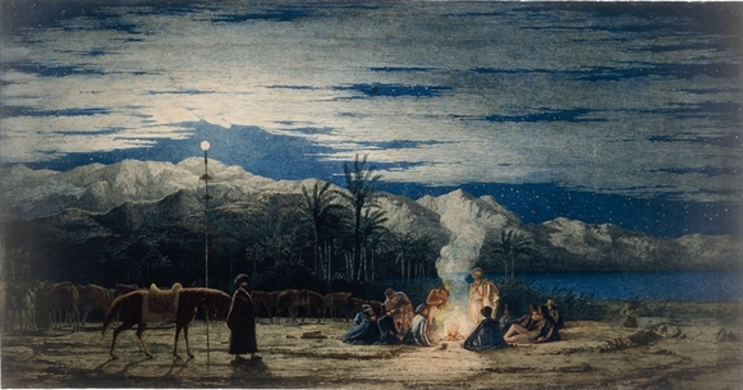 The Halt in the Desert(or The Artist's Halt in the Desert), watercolour, by Richard Dadd, shown on Antiques Roadshow in 1986 and purchased the next year for £100,000, by the British Museum.